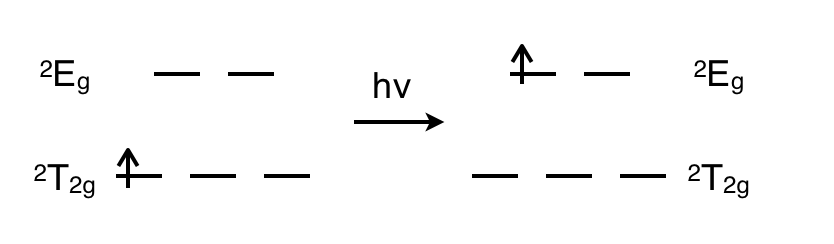 Excitation of an octahedral d1 electron configuration